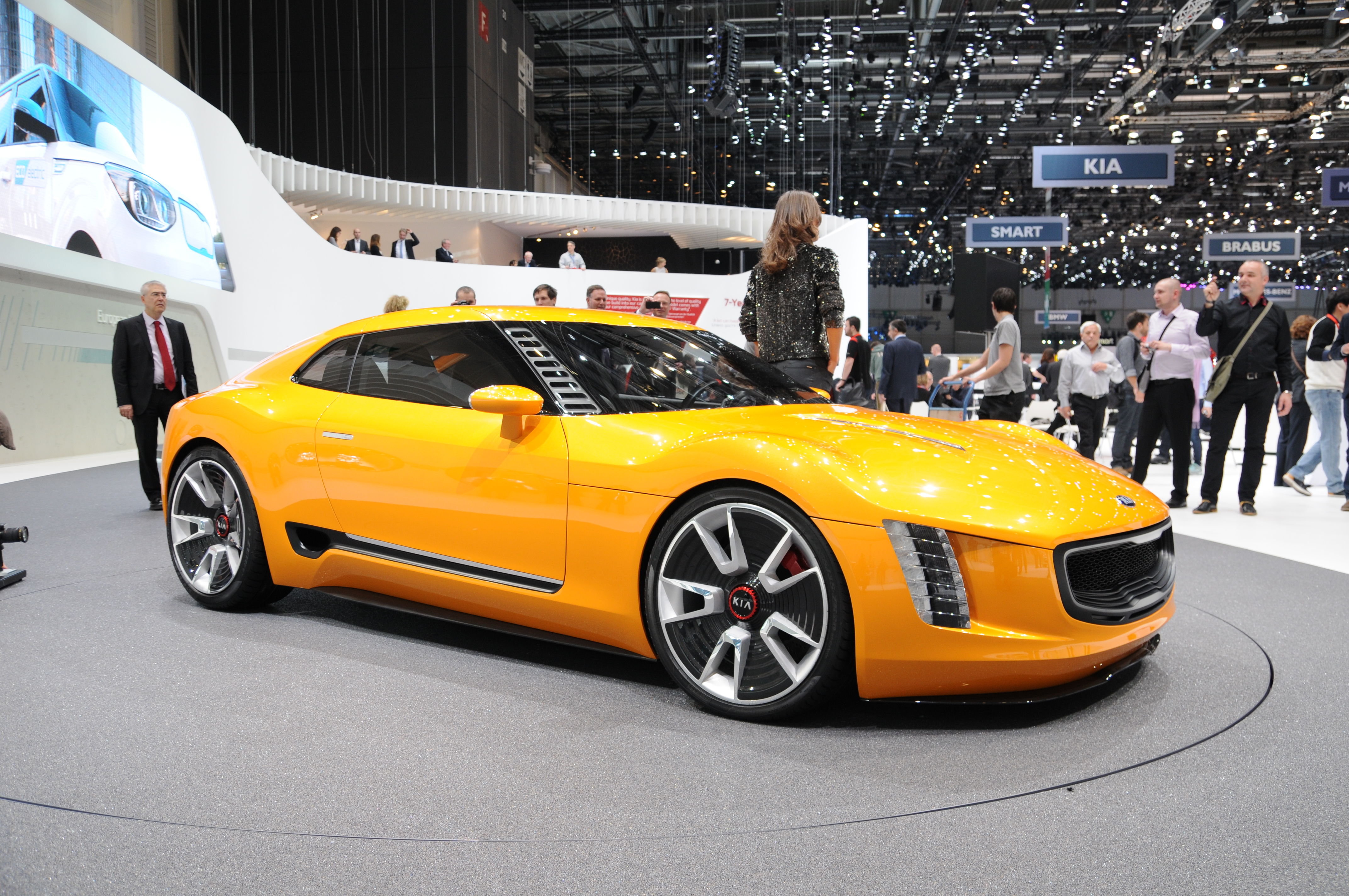 Geneva Motor Show 2014 (photo taken on the first press day)